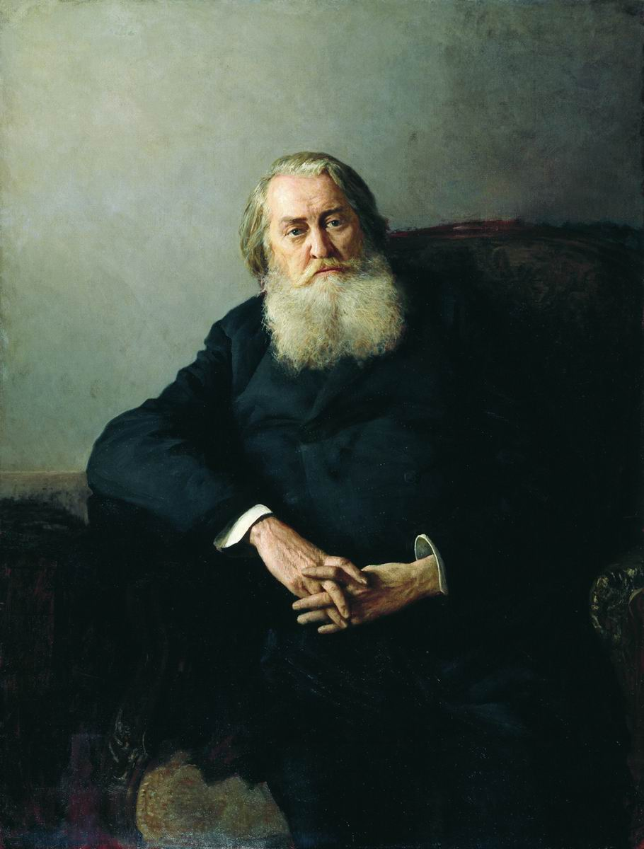 Portrait of A. N. Plescheev